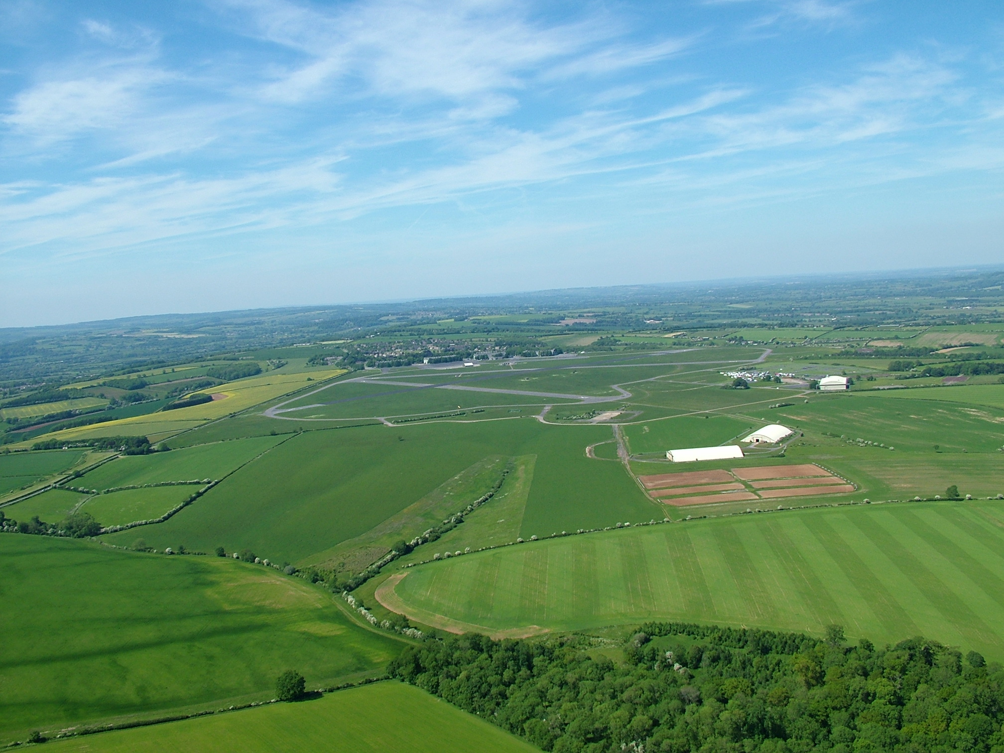 637 VGS RAF